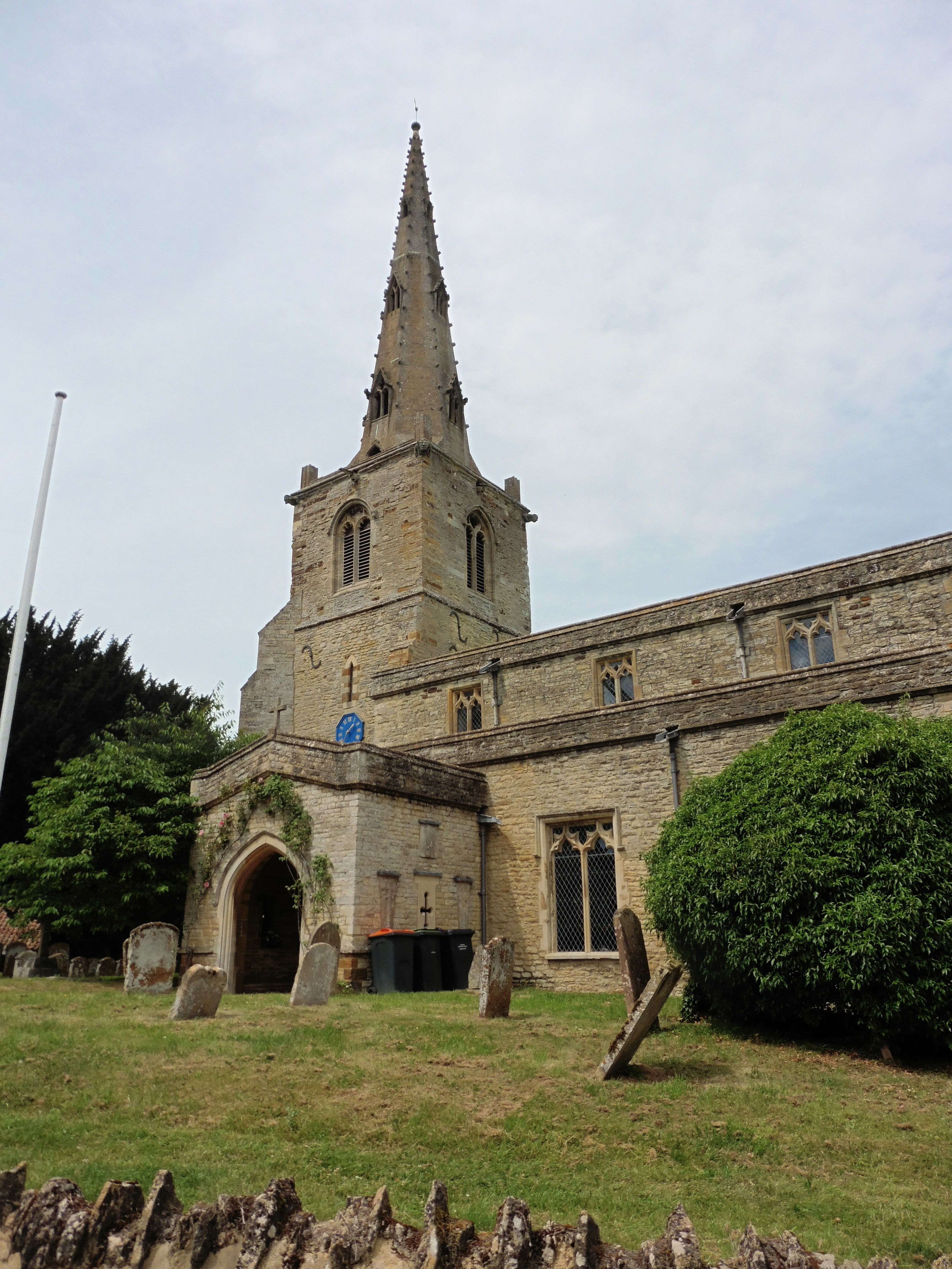 Steeple and south porch of the parish church of St Mary the Virgin, Podington, Bedfordshire, seen from the southeast